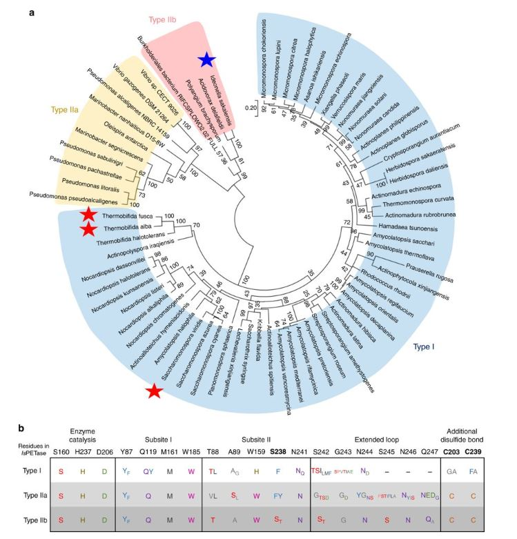 Figure A depicts a phylogenetic tree of the various PETase-like enzymes and showcases the type I class in blue and the type II in yellow and red. The blue star indicates the Ideonella sakaiensis derived PETase. Figure B shows a comparison of the two subclasses of type II and type I PETase-like enzymes. Note the catalytic triad is conserved in all three forms of the PETase-like enzymes.